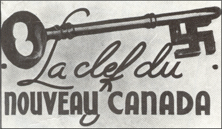 A 1930s postcard used by Adrien Arcand's organization